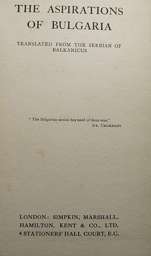 The Aspirations of Bulgaria Stojan Protic